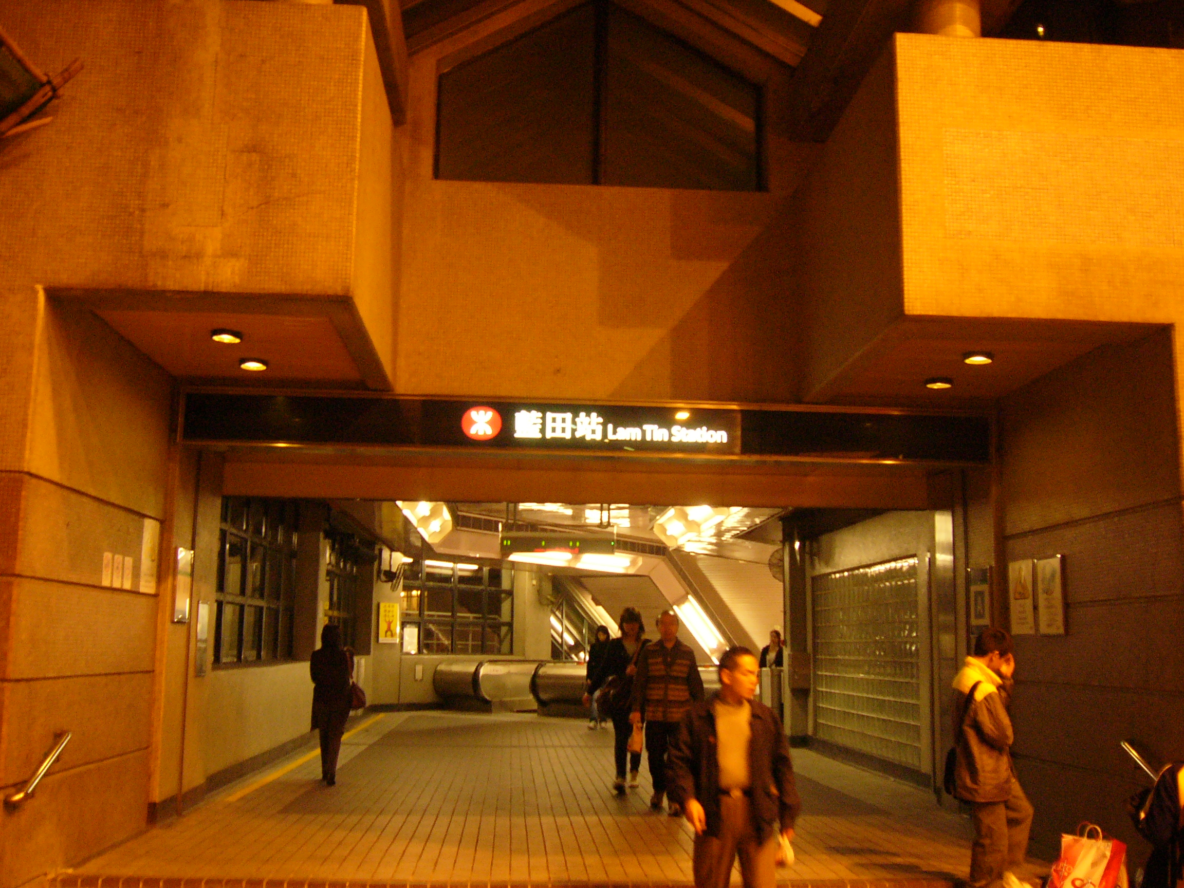 Exit A, Lam Tin MTR Station